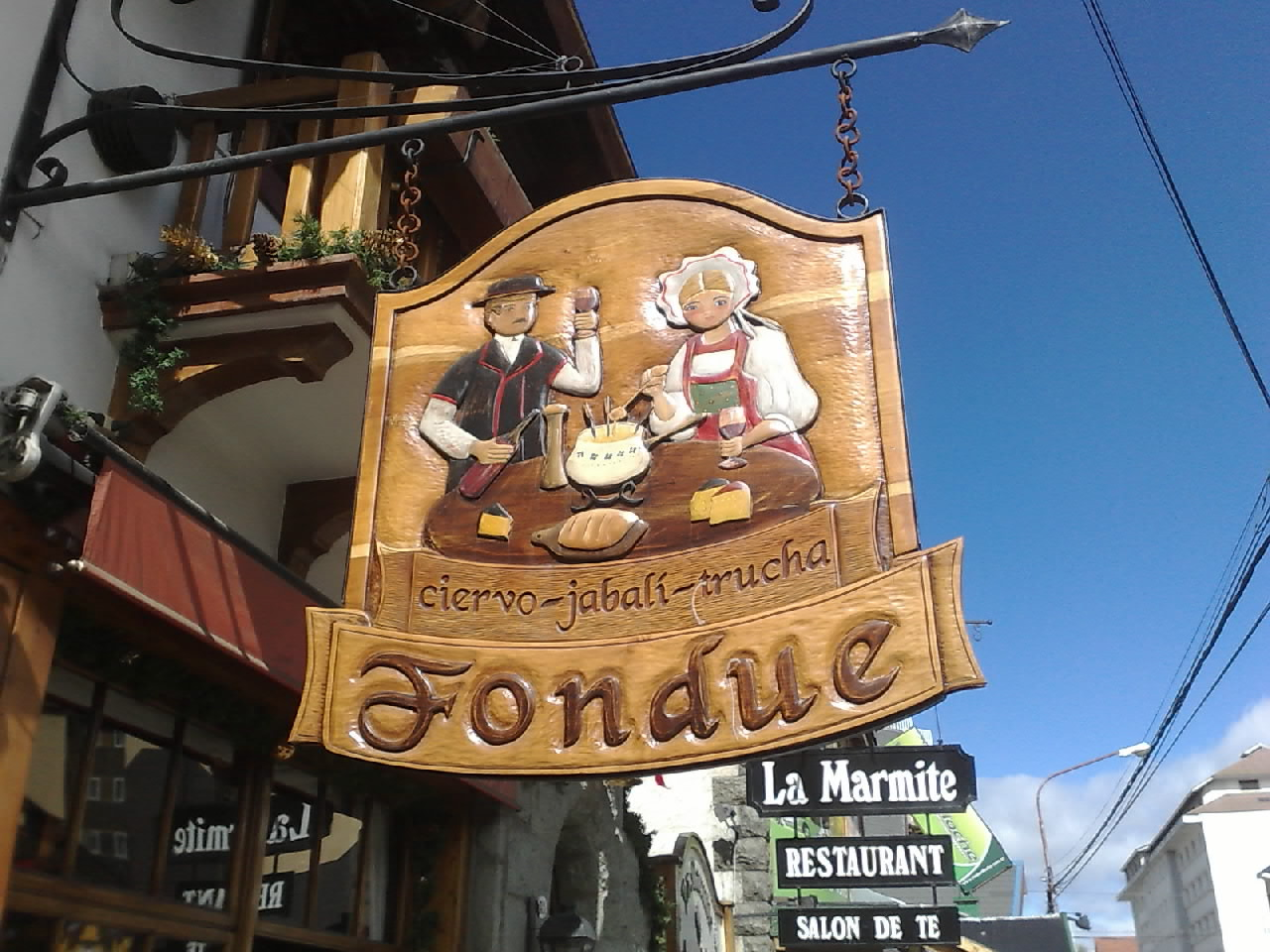 Swiss greetings from argentina :) there is a lot of swiss-style stuff here, Fondue, chocolate (with fake toblerone), bernardiner, even a colonia suiza. Everything presumably influenced by the former emigration era in the 19Th century, when a lot of people from the alpine region moved here.